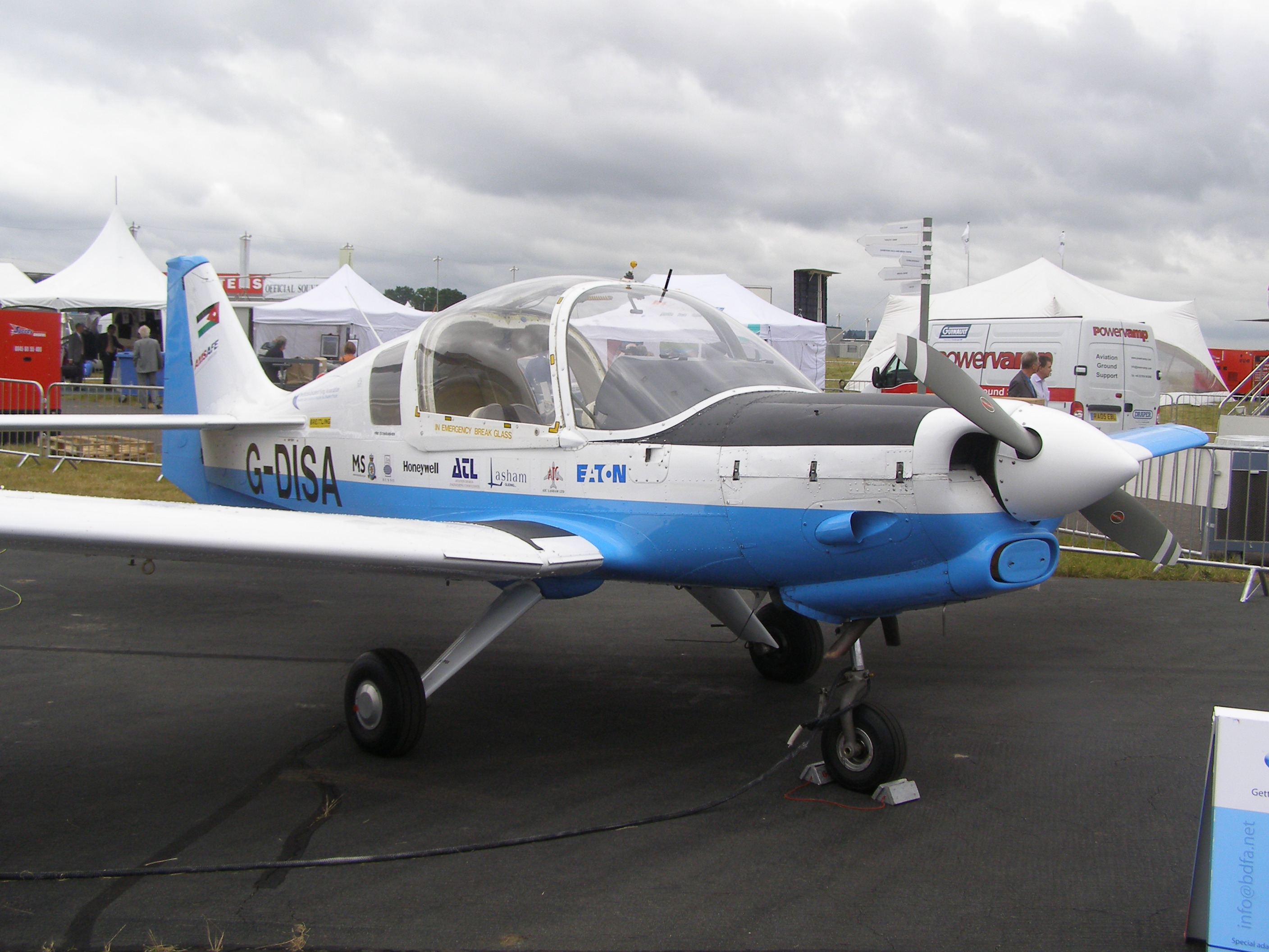 Scottish Aviation Bulldog G-DISA operated for the British Disabled Flying Association on display at Farnborough Airshow 2008